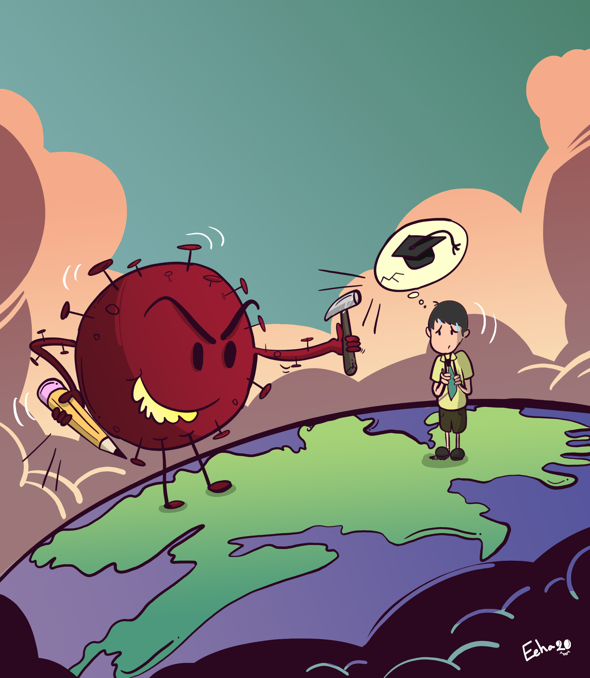 Millions of children are at risk of being pushed into child labour due to the Covid-19 crisis